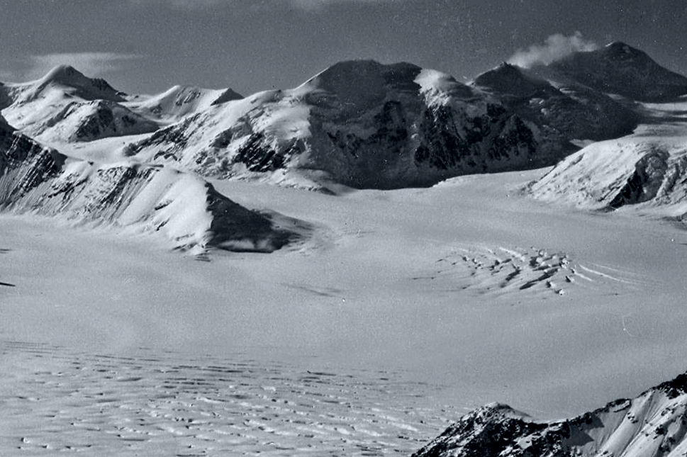 Mount Elusive (west aspect) flanked by Mt. Edison to left and Mt. Gilbert Lewis to right, with Columbia Glacier below.